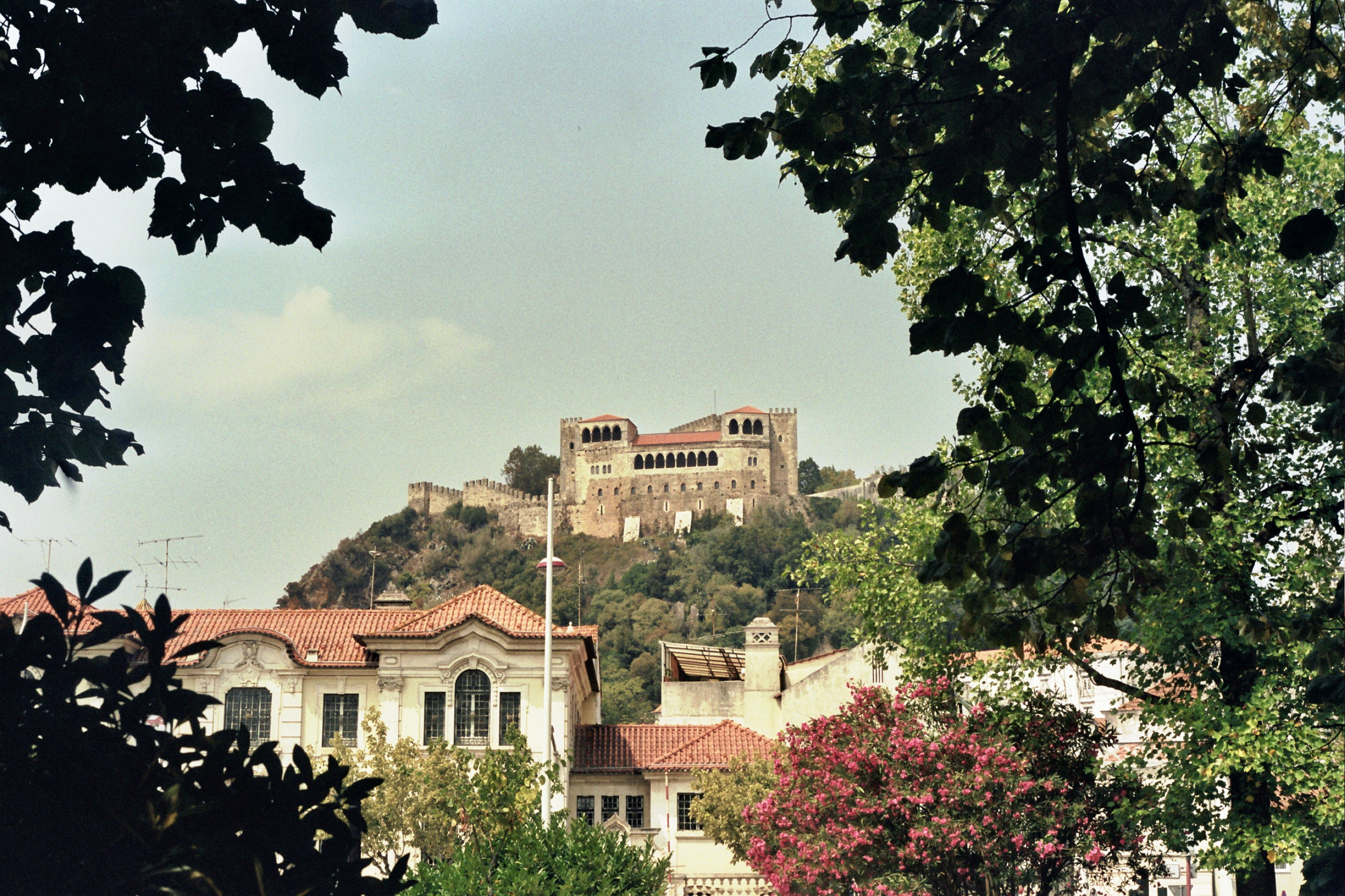 Castle of Leiria